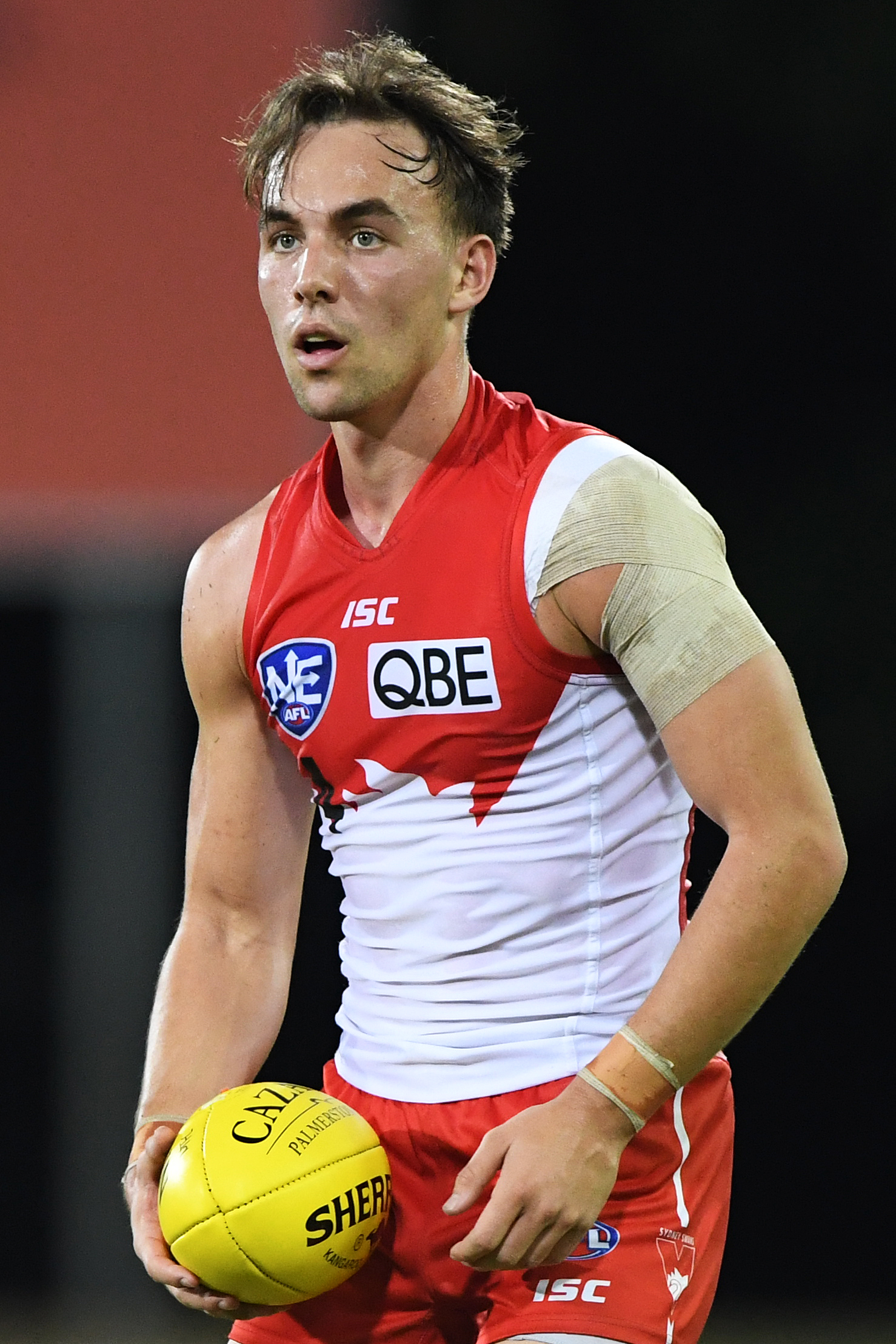 Ryan Clarke of Sydney during the 2019 NEAFL round 14 match between NT Thunder and Sydney at TIO Stadium on Saturday, 6 July 2019 in Darwin, Northern Territory.